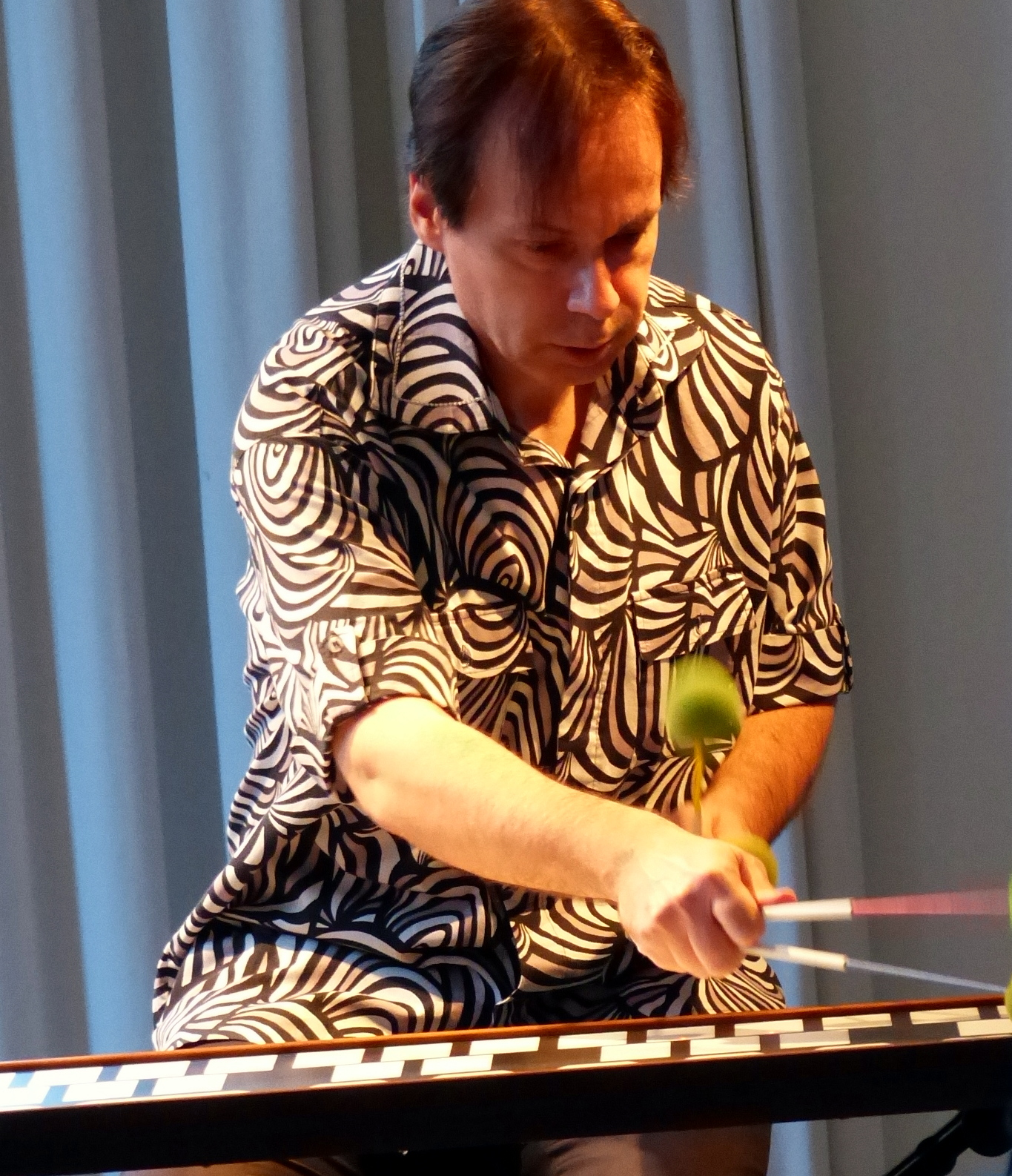 Konzert B.E.N.K., Künstlerhaus Schloß Balmoral, Bad Ems. Lukas Ligeti, electronic marimbaphone